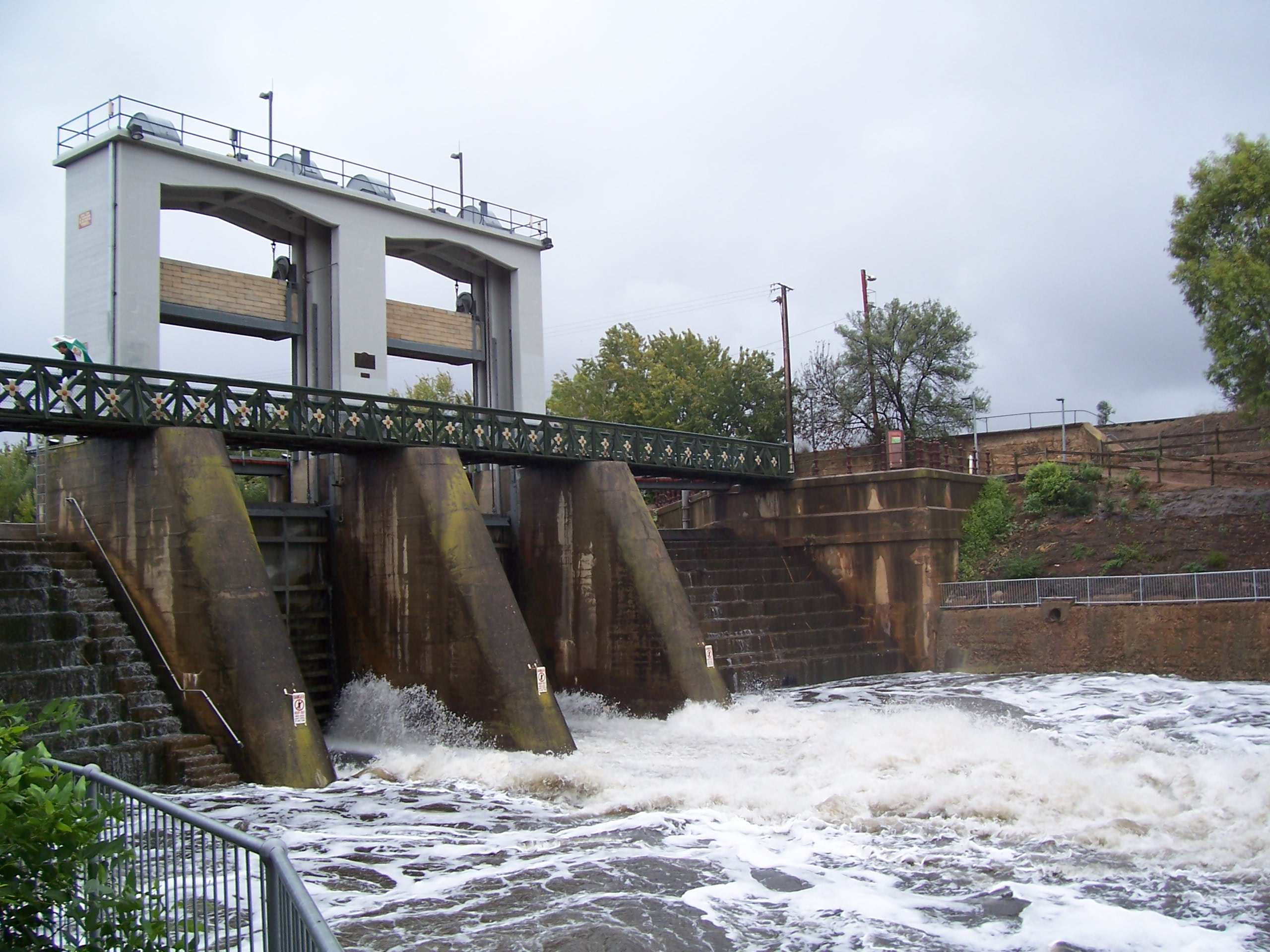 Torrens Weir in operation during heavy rainfall in late April 2007